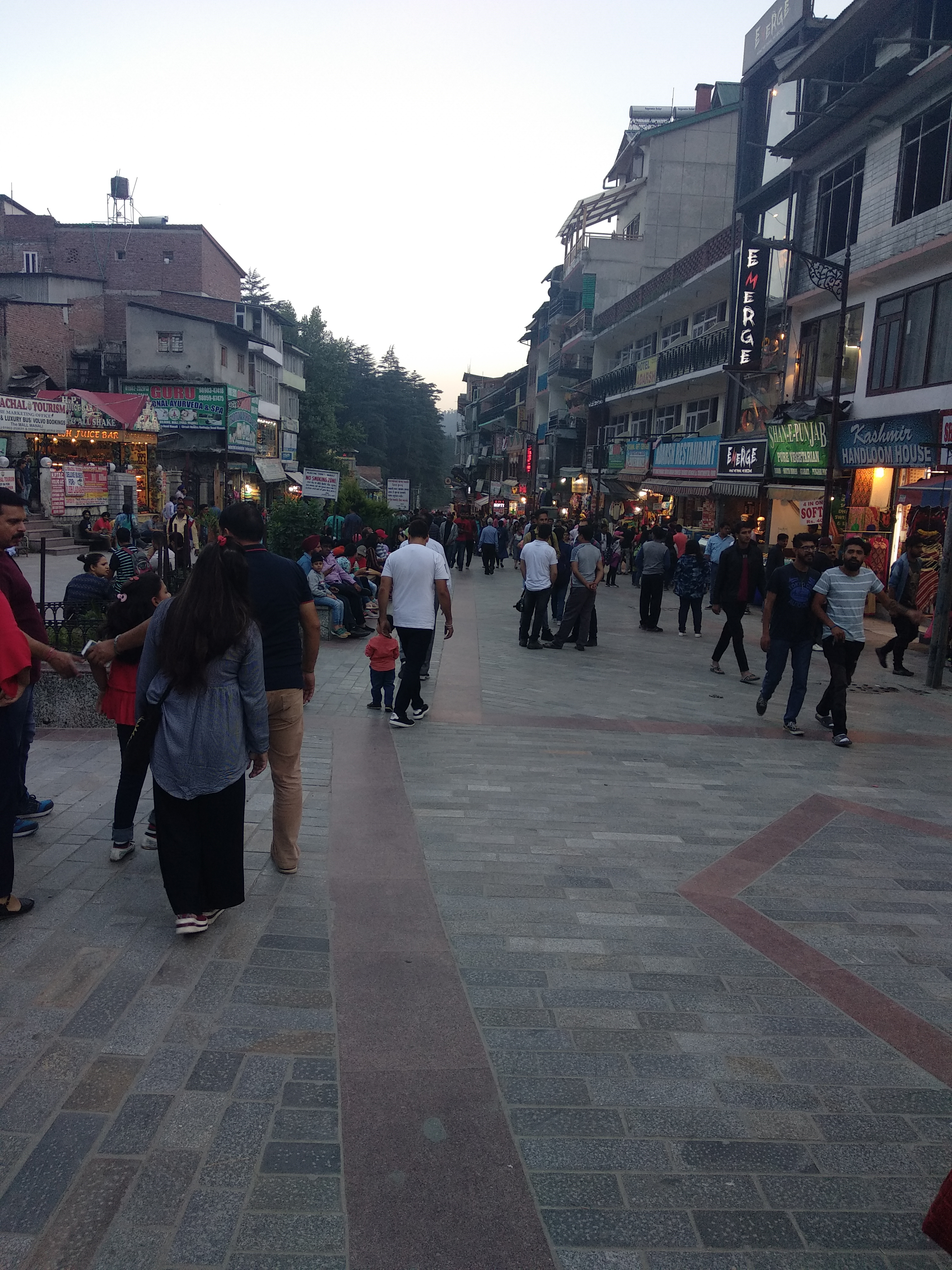 Mall road at evening in Manali